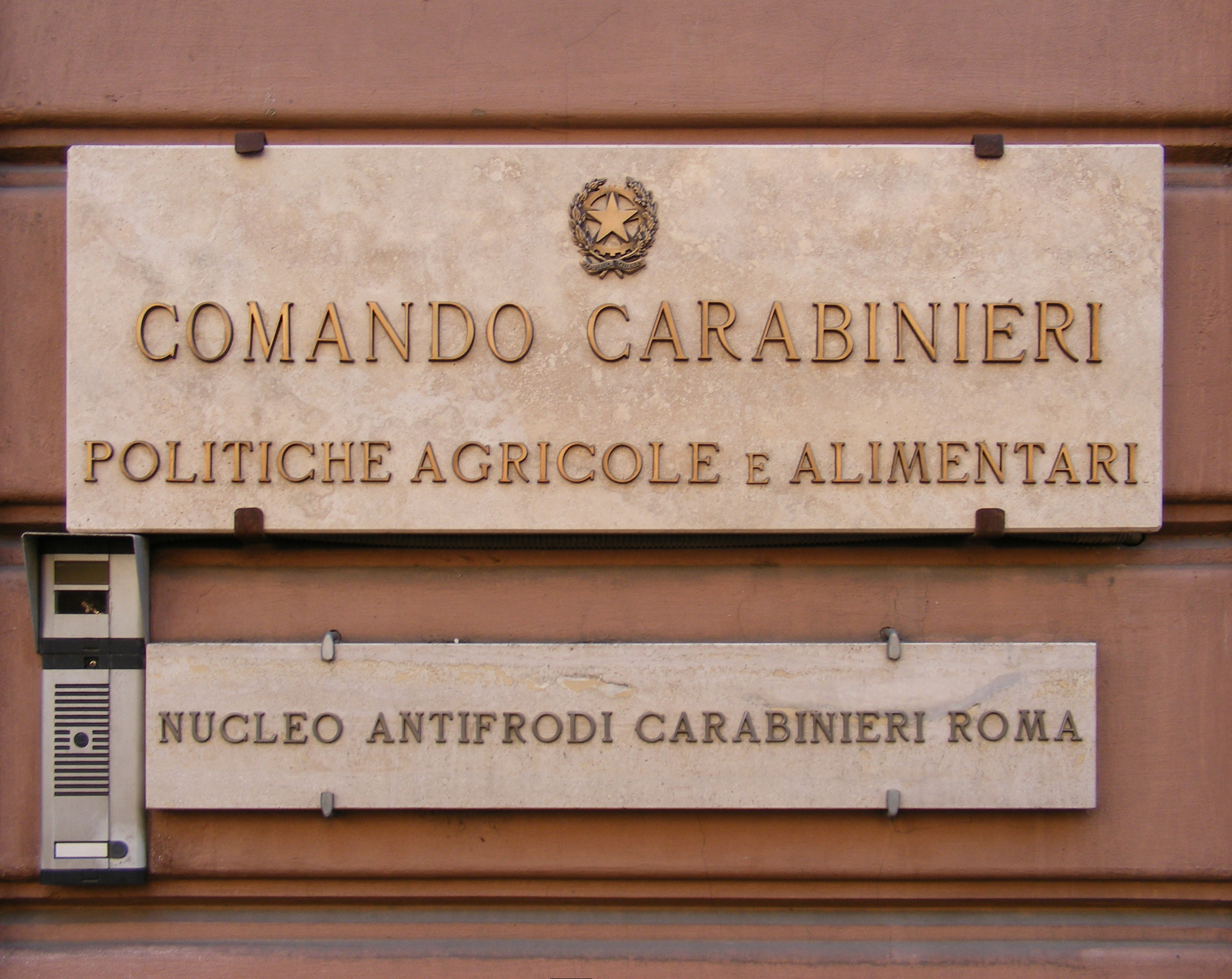 Carabinieri Command - Agriculture and Food (sign)